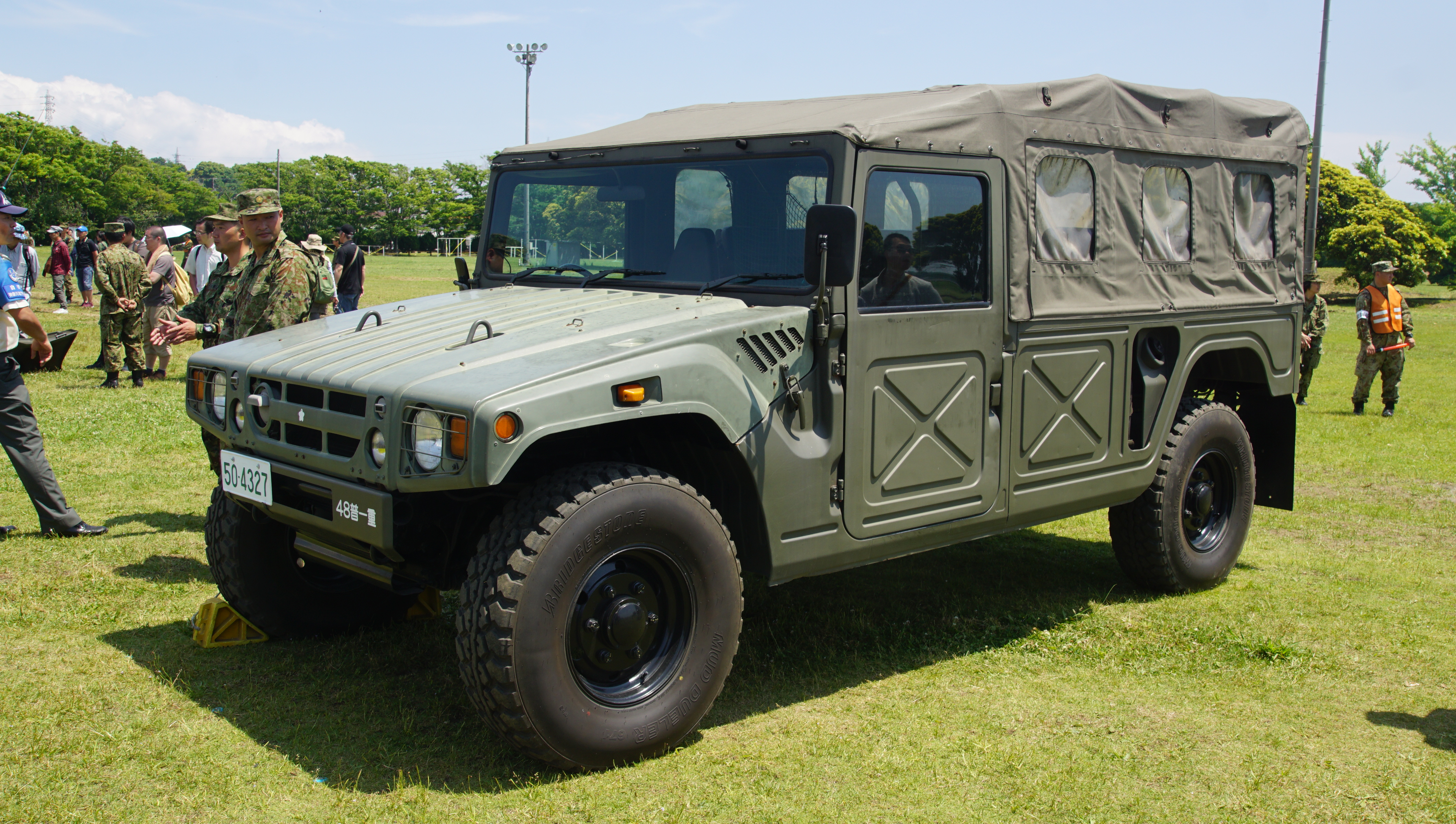 JGSDF Toyota High Mobility Vehicle in 2017